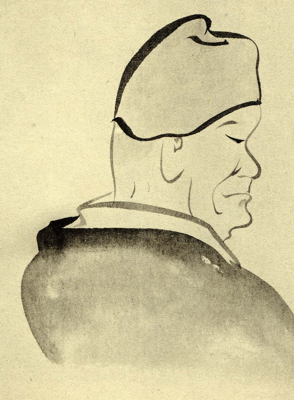 Yosa Buson(与謝蕪村）was a Japanese haikai poet.This picture was drawn by Matsumura Goshun(松村呉春).